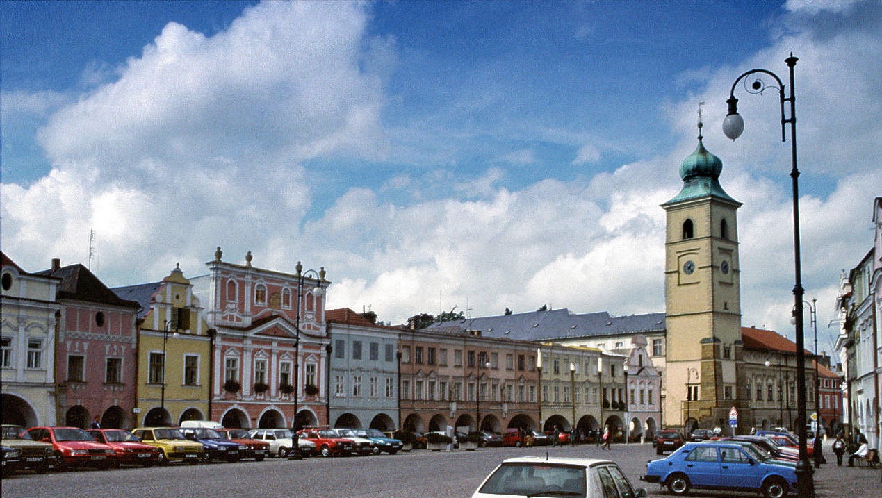 Litomyšl, marketplace